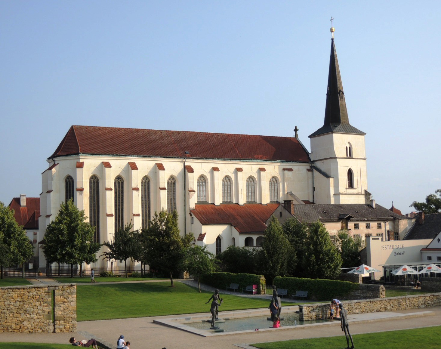 Litomyšl, Exaltation of tbe Holy Cross church from N